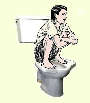 Pedestal squat toilet